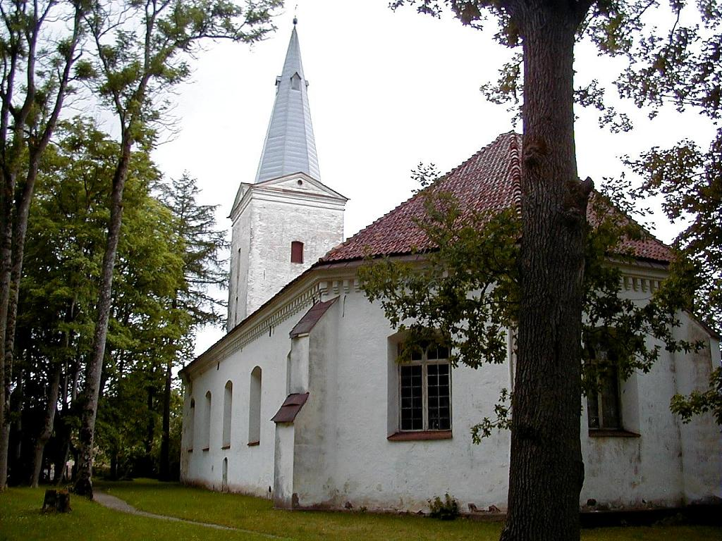 Dundaga Evangelical Lutheran Church